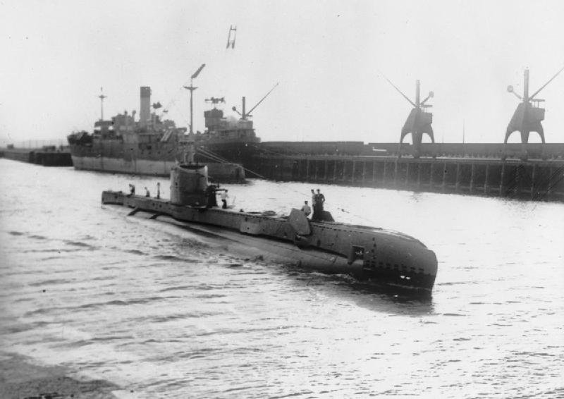 British S class submarine HMSM SHAKESPEARE underway passing a quayside.